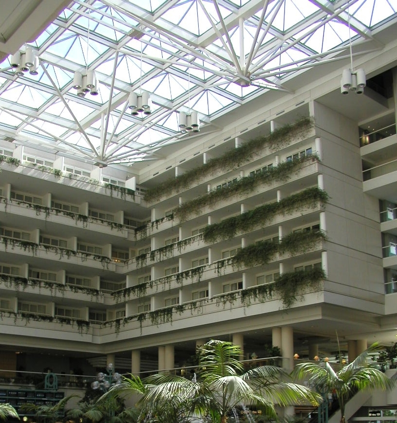 An interior view of Orlando International Airport showing the on-site hotel rooms.